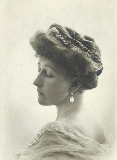 Portrait of Stéphanie of Belgium (1864-1945)